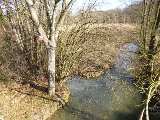 Courtenay, Loiret, Centre region, France. Seen from the D232, upstream from Courtenay, looking east and upstream : the ru de Piffonds just before its confluence with the Clairis river. A ditch arrives on its right bank, here seen on the left, well-filled at this time of the year (january 2015).